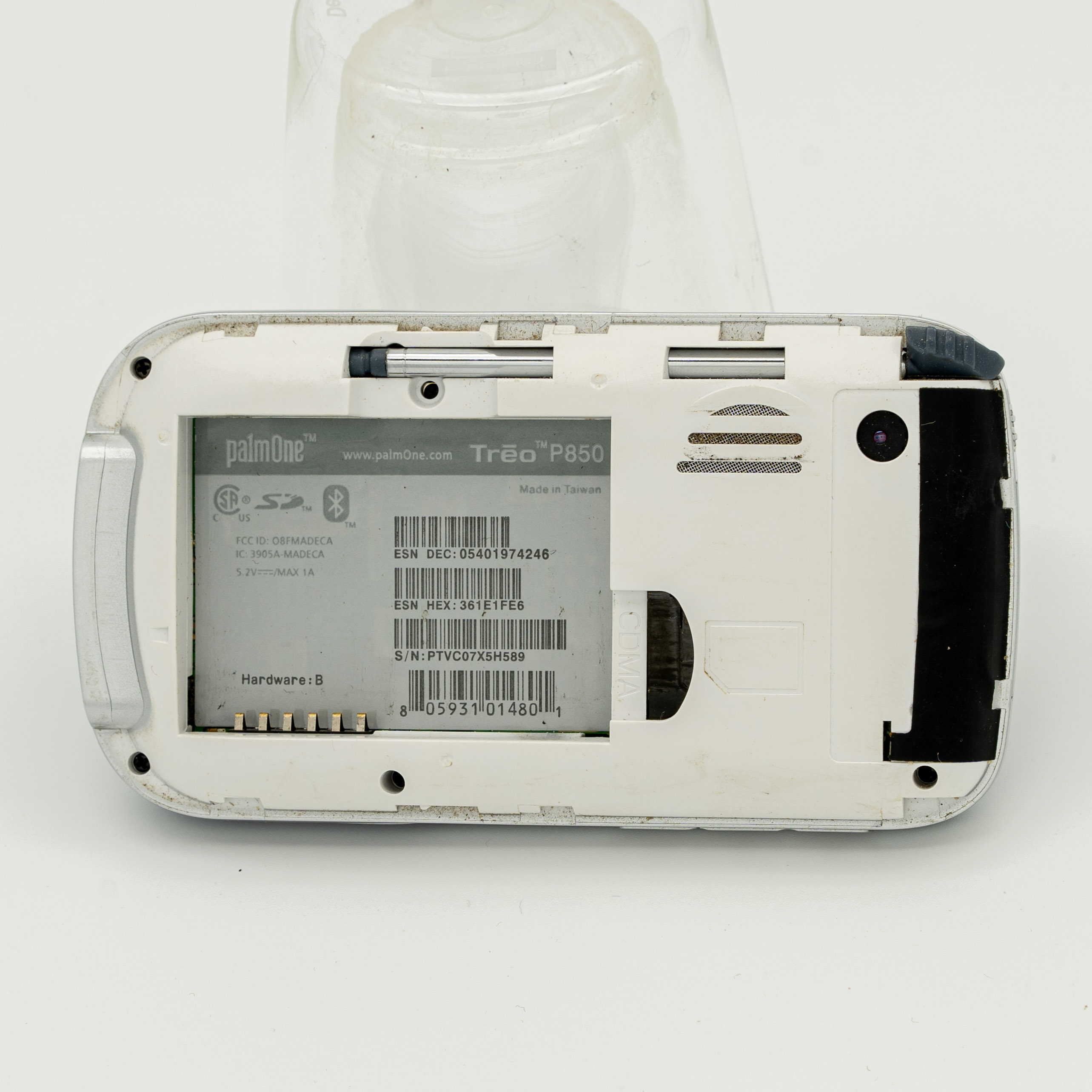 Shows FCC and UPC markings, that match Palm Treo 650.